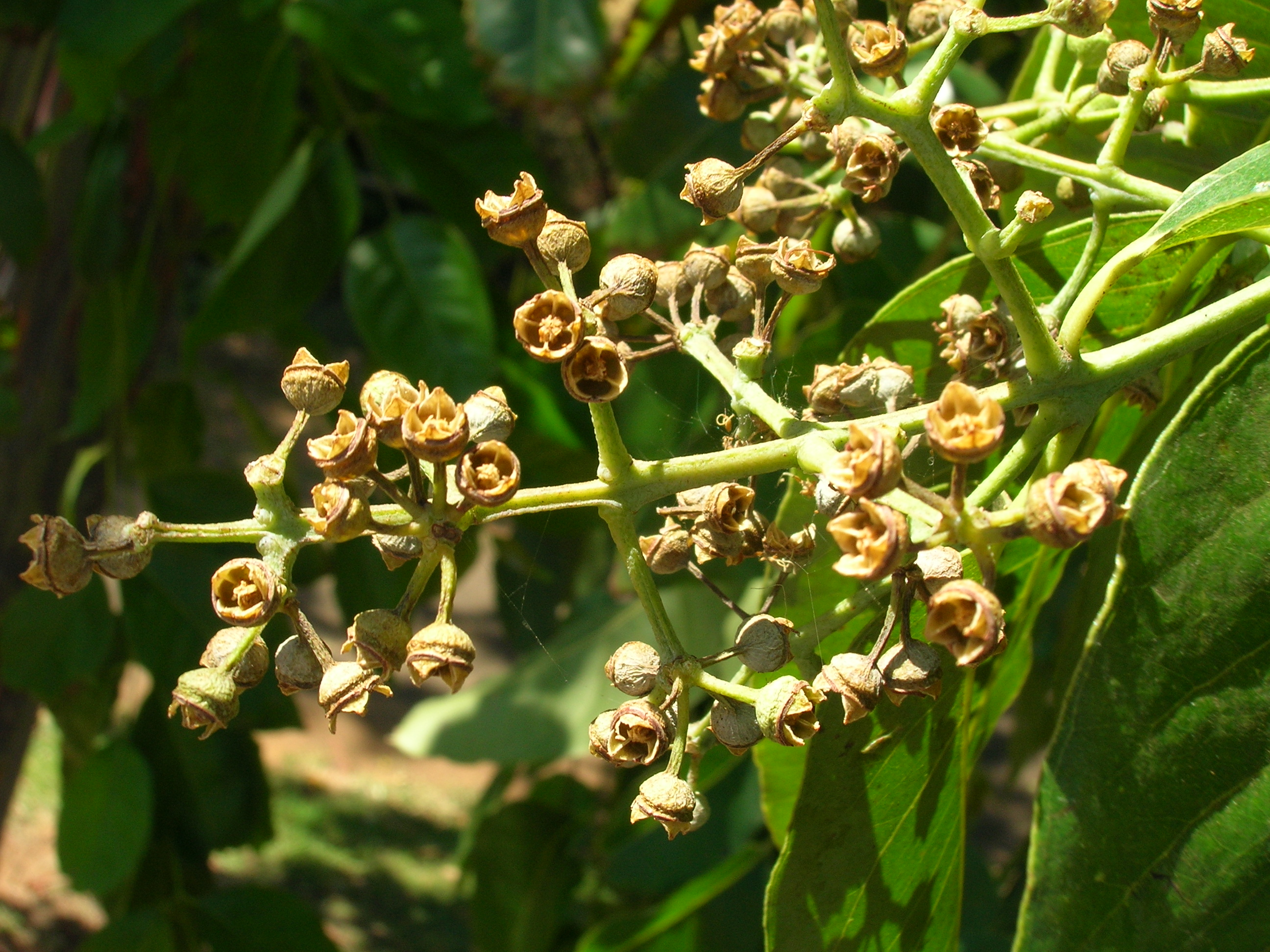 Eucalyptus deglupta (capsules). Location: Maui, Kahului Community Center